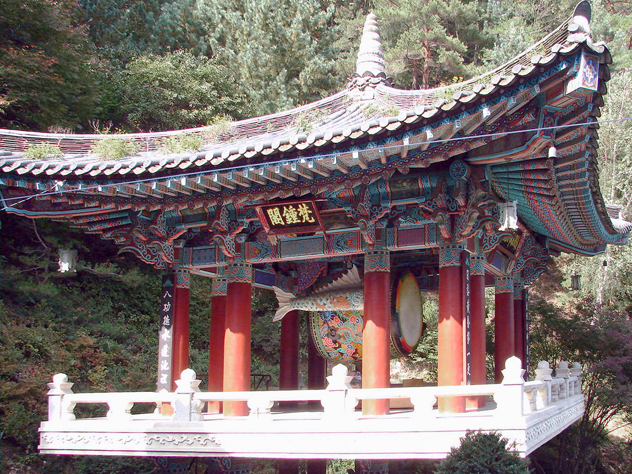 Dharma Drum in the Guinsa Bell Pavillion. Guinsa, located near Danyang in Chungcheongbuk-do, South Korea, has architecture following that of many other Buddhist temples in Korea, but is also markedly different in that the structures are several stories tall, instead of the typical one or two stories that structures found in many other Korean temples.